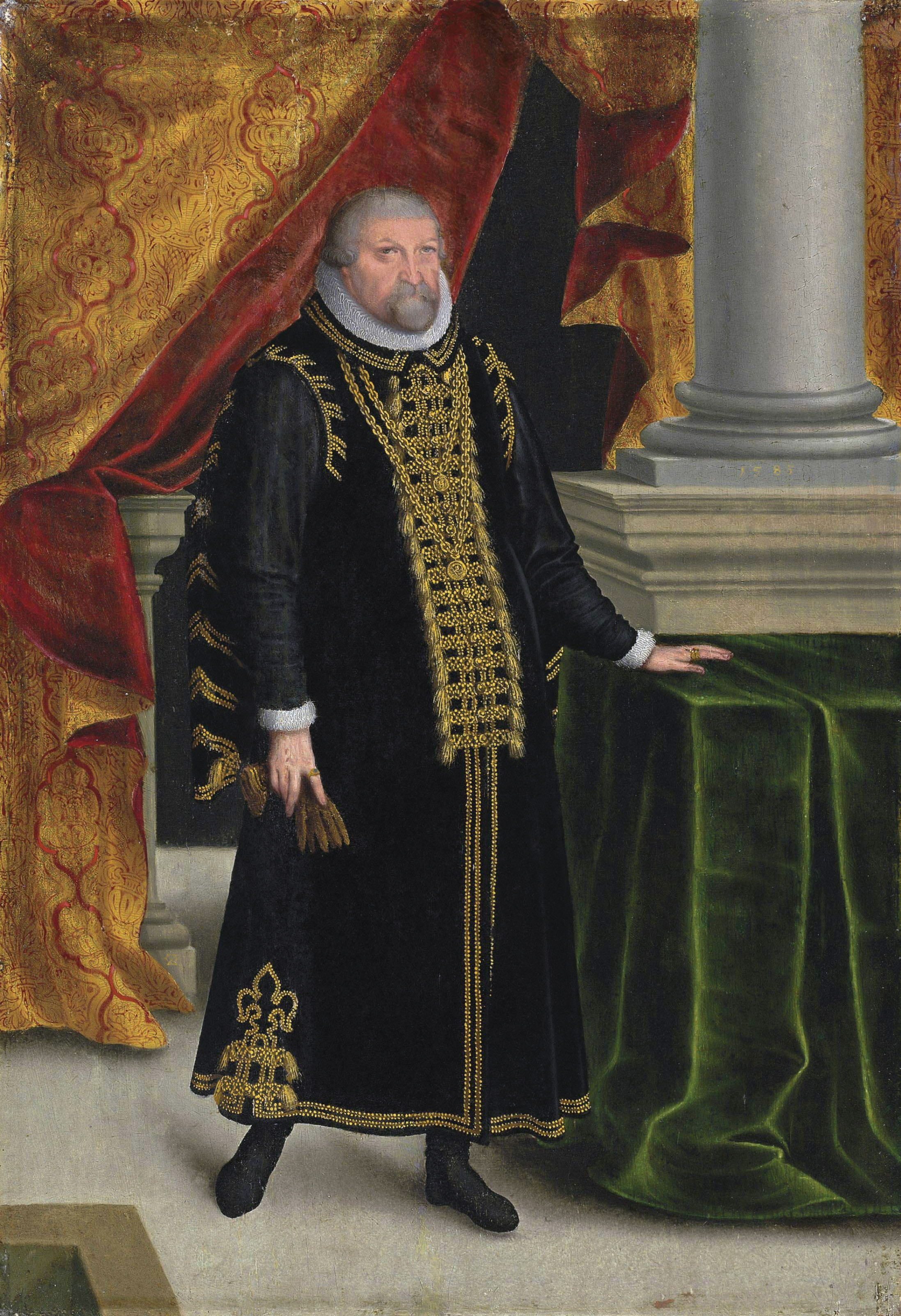 Johan Georges, Elector of Brandenburg (1525-1598)